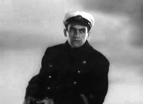 A frame from "Way of the ship" (USSR, 1931, "Put' korablya", or "EPRON").